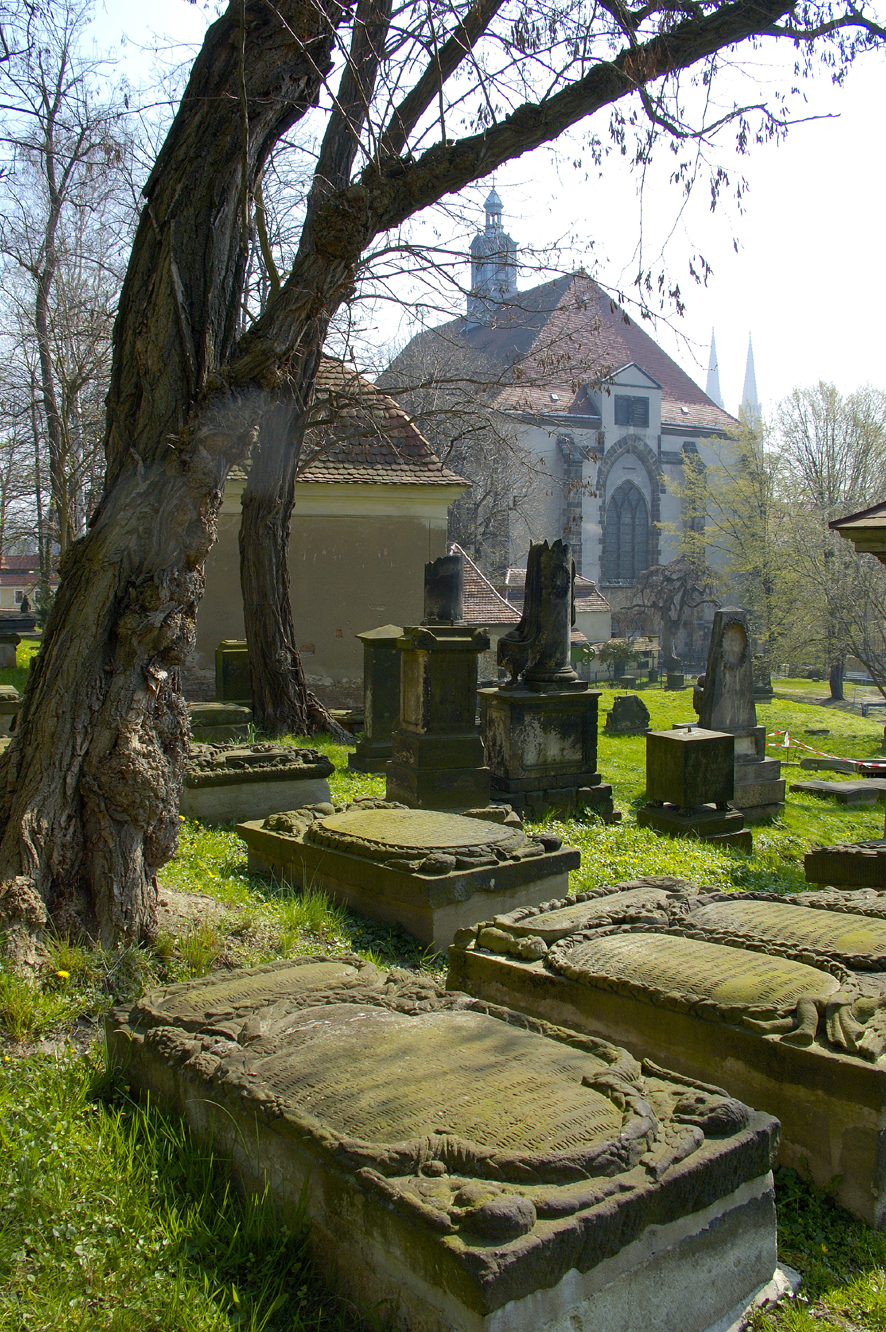 Nikolaikirchhof Görlitz, western part